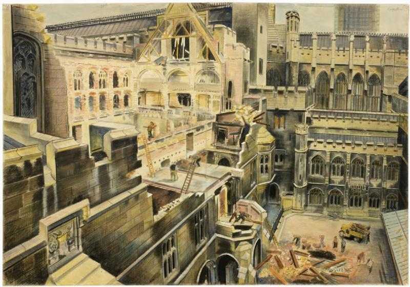 View across the roofless Chamber of the House of Commons, in the Palace of Westminster, with workmen clearing up after an air-raid.